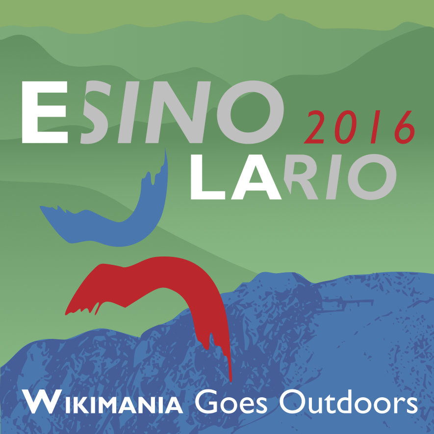 Squared logo of Wikimania Esino Lario.